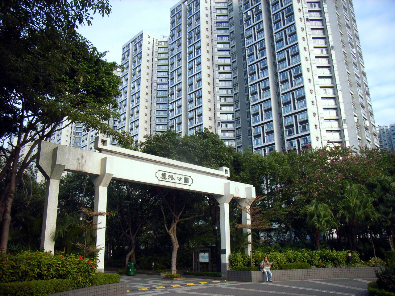 觀塘 麗港公園